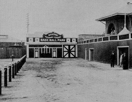 This is a scan from a 1951 book, 75th Anniversary Official National League History, p.30. The photo is quite small. This is a blowup, which brings out more detail but also makes it grainier. It is also darkened to bring out more details of the sign, at the expense of other details in the photo. Its purpose is to illustrate the "official" name of the ballpark popular known as "South End Grounds".